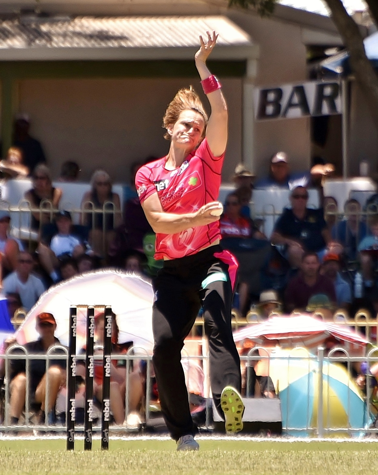 Sydney Sixers bowler Sarah Aley bowling against the Perth Scorchers, in a WBBL match at Lilac Hill Park in Perth